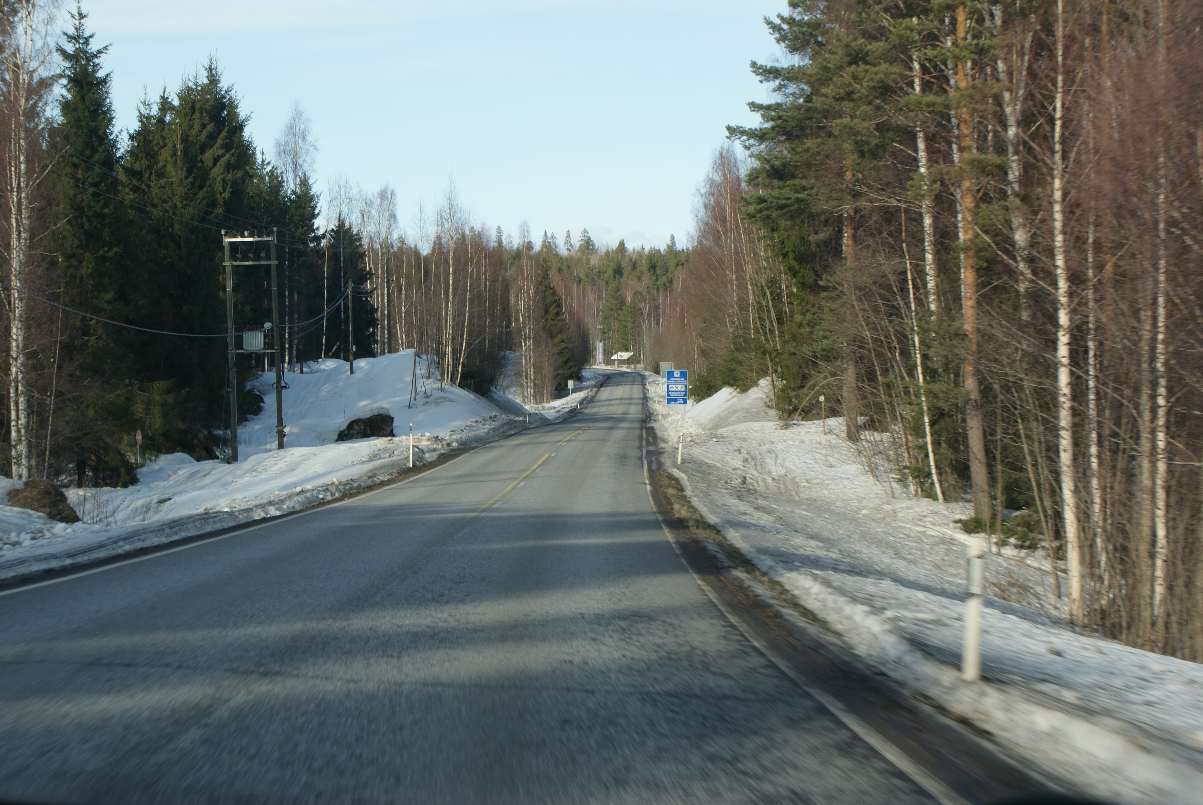 Regional road 464 in Rantasalmi, Finland